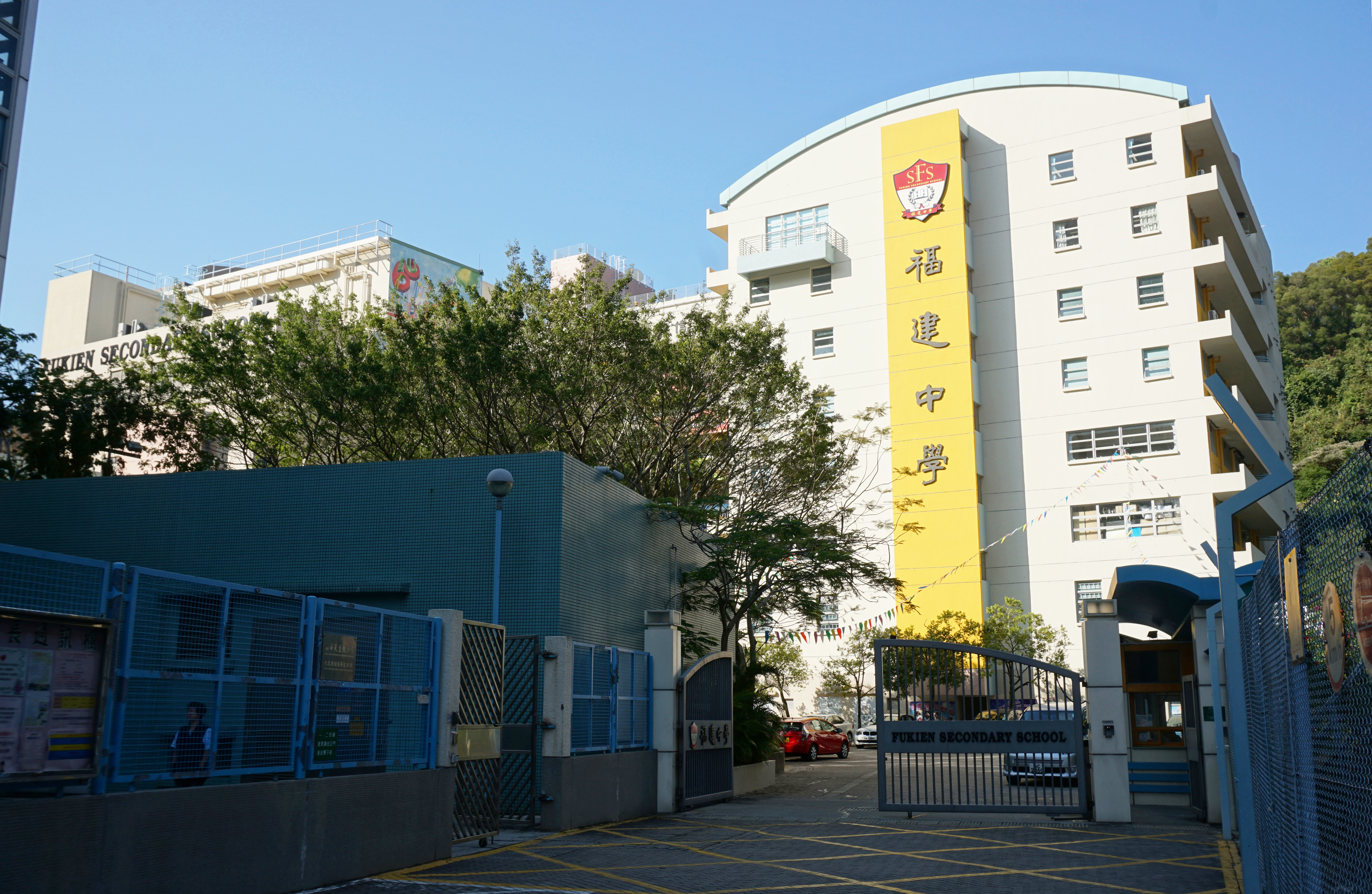 Fukien Secondary School in Ngau Tau Kok, Hong Kong.